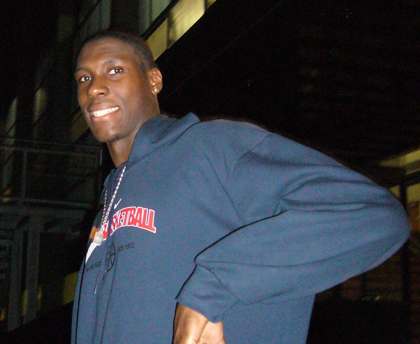 Photo du joueur français de basket-ball Ian Mahinmi. Photo prise par sanguinez à la maison des sports Clermont-Ferrand à l'issus du match Clermont-Pau le 20 janvier 07. Crop of Picture of the french basketball player Ian Mahinmi, take in Clermont-Ferrand after the game between Clermont-Fd and Pau-Orthez on 01/20/07. See full version. Original